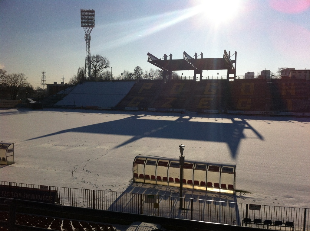 Florian Krygier's Stadium, Szczecin